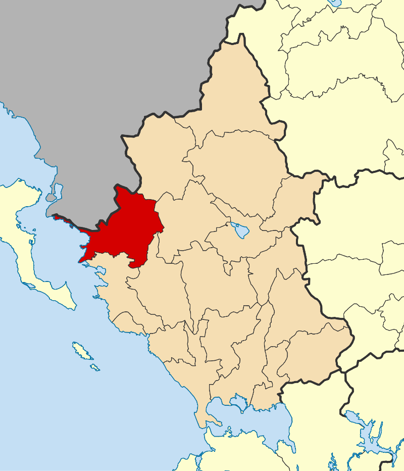 Locator map for Filiates municipality in Greek region Epirus (2011)